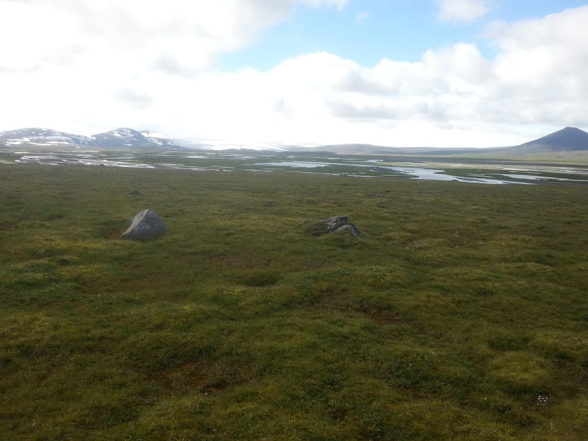 Eyjabakkar